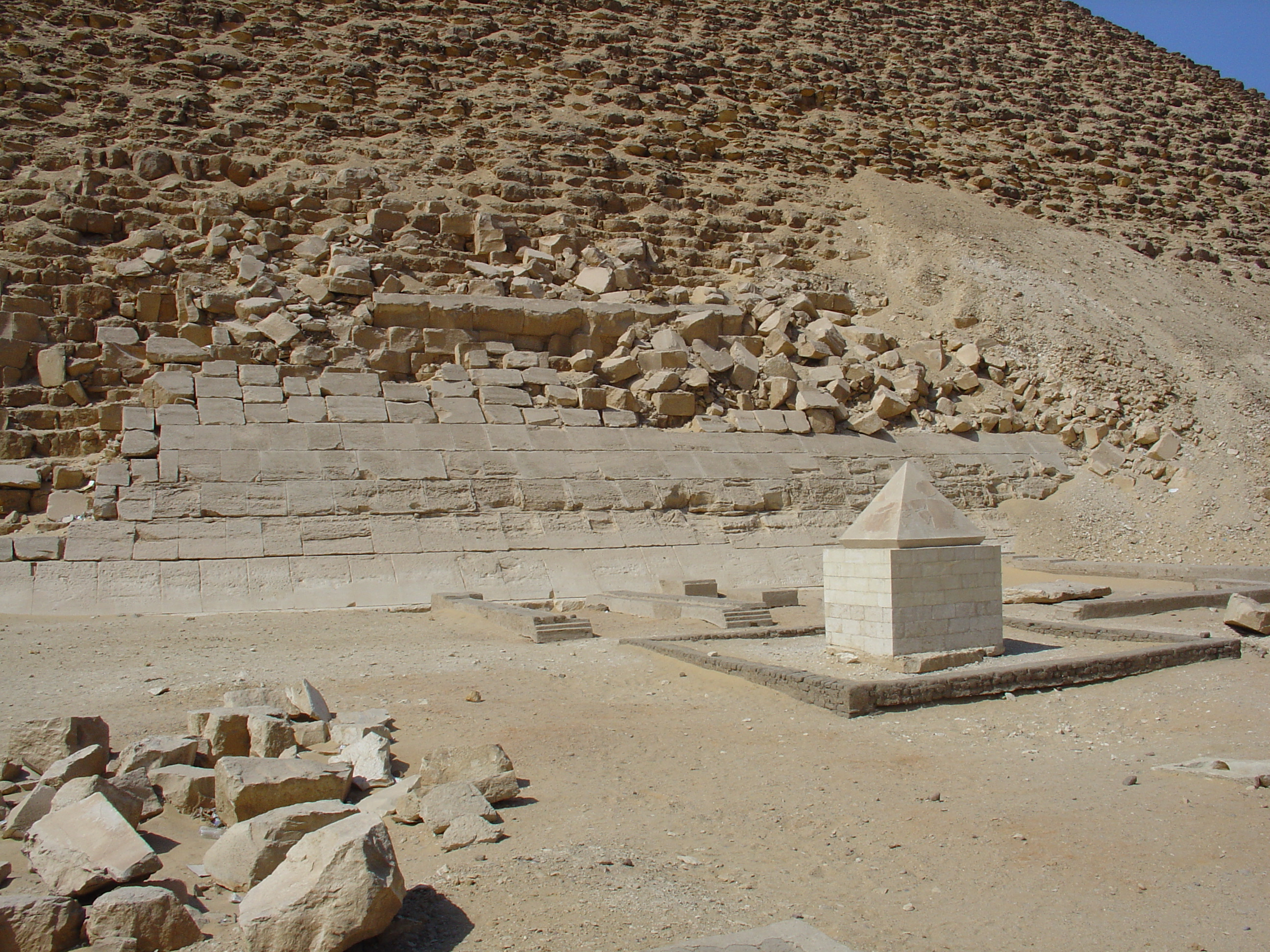 The restored pyramidion belonging to the Red Pyramid of Pharaoh Snoferu, at Dahshur, is now on permanent open air display beside the pyramid it was apparently intended to surmount.